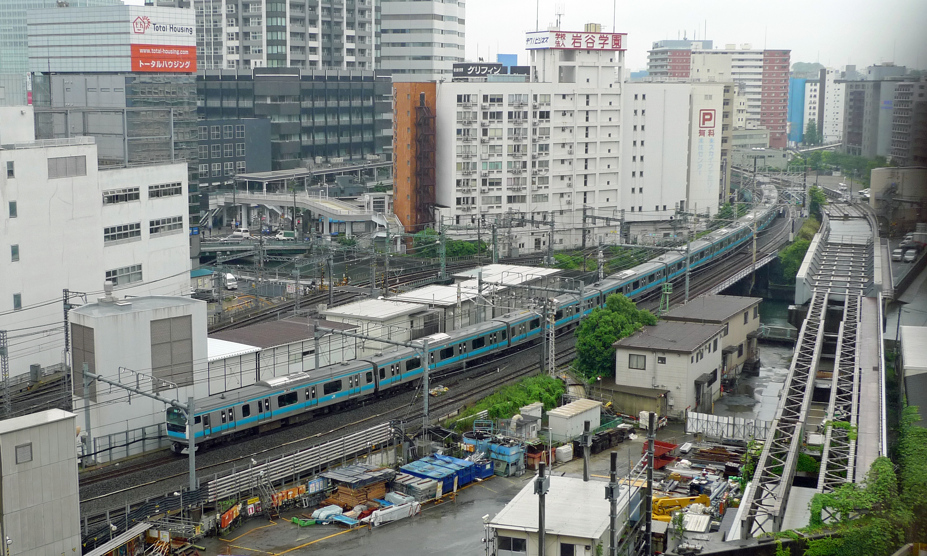 Negishi Line near Yokohama Station. VIewed from the parking lot of Sotetsu Joinus department store